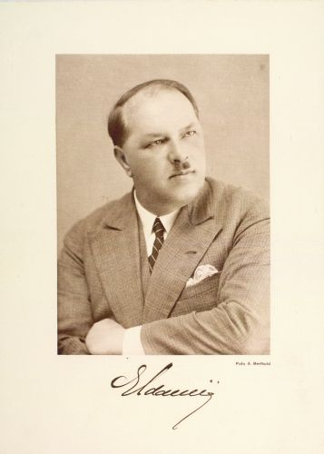 Emil Adamič (1877-1836), Slovene composer and conductor.